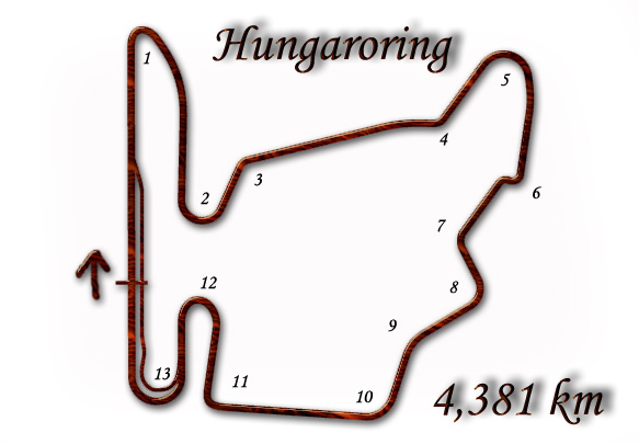 Diagram of the Hungaroring Circuit after modified in 2003 and used for Hungarian Grand Prix from 2003 to 2006.